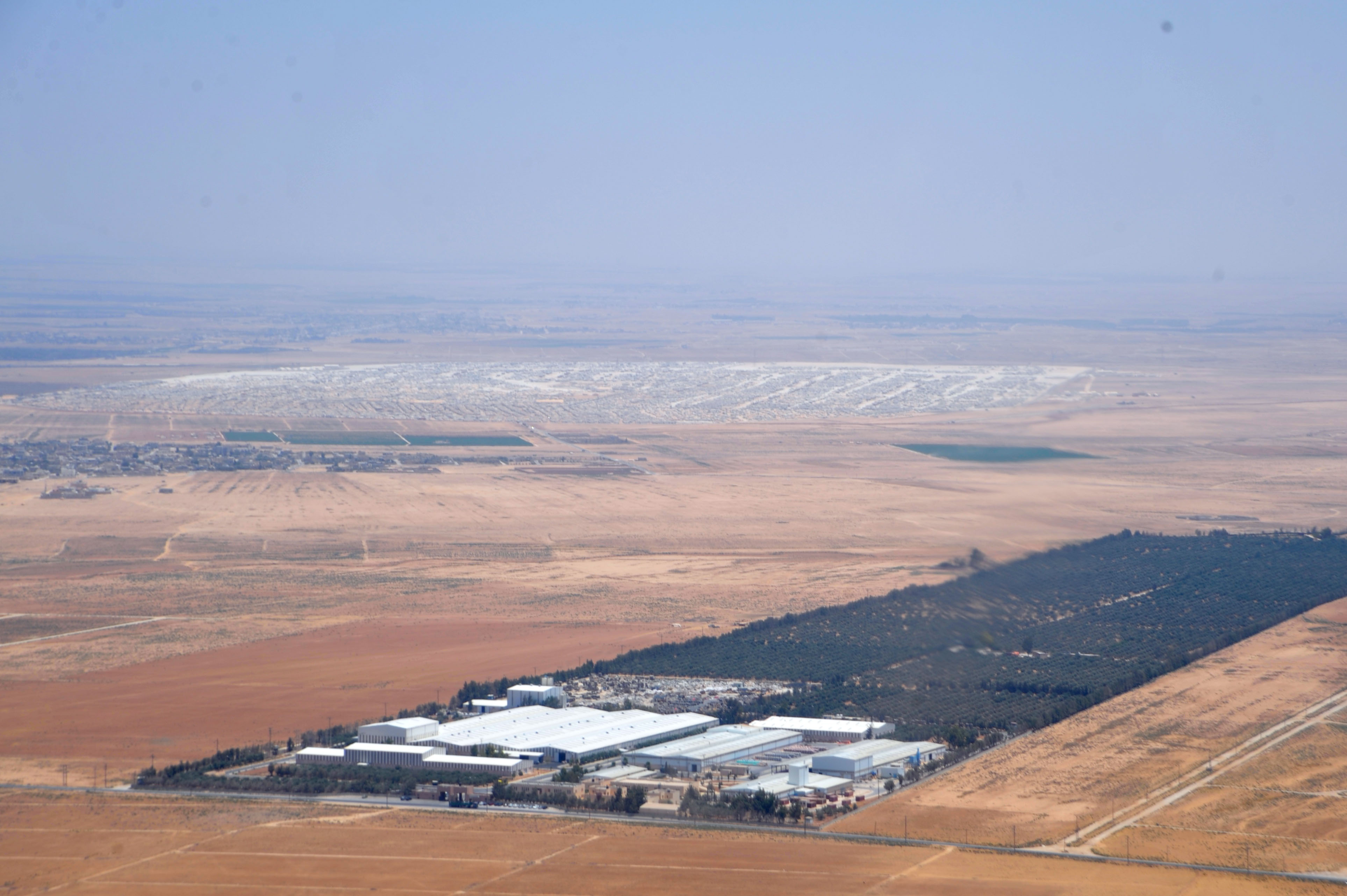 The Za'atri camp for Syrian refugees in Jordan is seen on the horizon on July 18, 2013, from a helicopter carrying U.S. Secretary of State John Kerry. [State Department photo/ Public Domain]